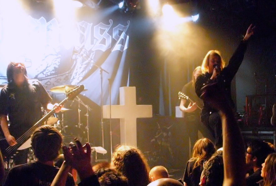 Robert Lowe, vocalist of Swedish Heavy metal band Candlemass